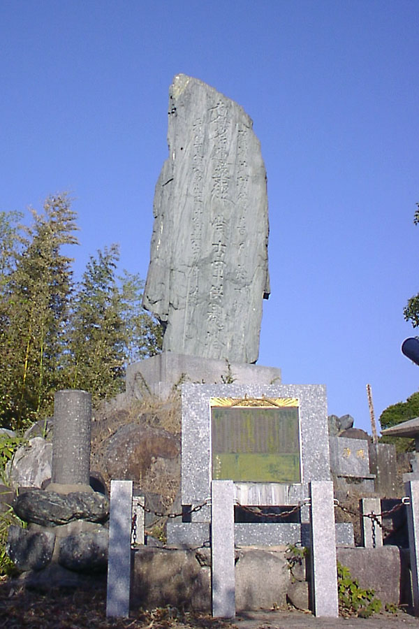 Mouko-zuka (Mongolian mound), in Shikanoshima, Fukuoka.